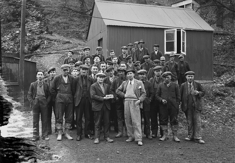 Ffotograffydd/Photographer: P B Abery (1877?-1948) Nodyn/Notes: Image shows presentation of plaque "BG No 1" Dyddiad/Date: [1938?] Cyfrwng/Medium: Negyddion gwydr / Glass negatives Maint/Dimensions: 119 x 163 mm. Cyfeiriad/Reference:PBA24/4 Rhif cofnod / Record no.: 4509792 Rhagor o wybodaeth am gasgliad P B Abery yn Llyfrgell Genedlaethol Cymru More information about the P B Abery Collection at the National Library of Wales